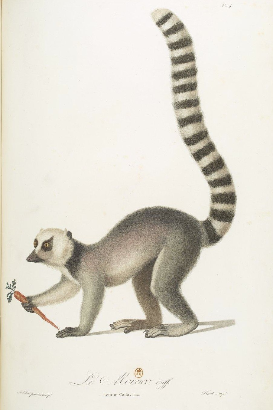 Histoire naturelle des singes et des makis